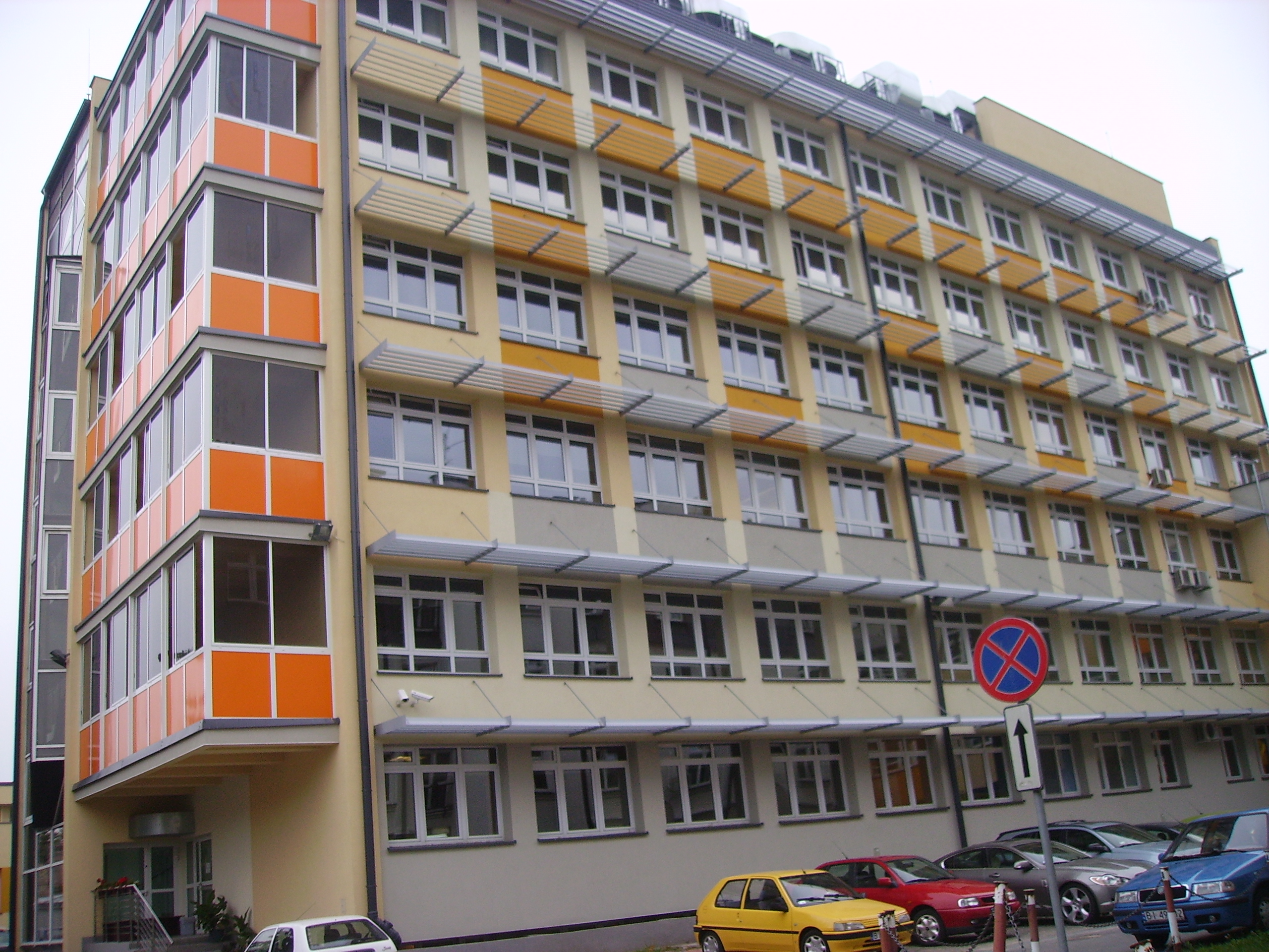 Białystok Oncology Centre, Ogrodowa 12, street